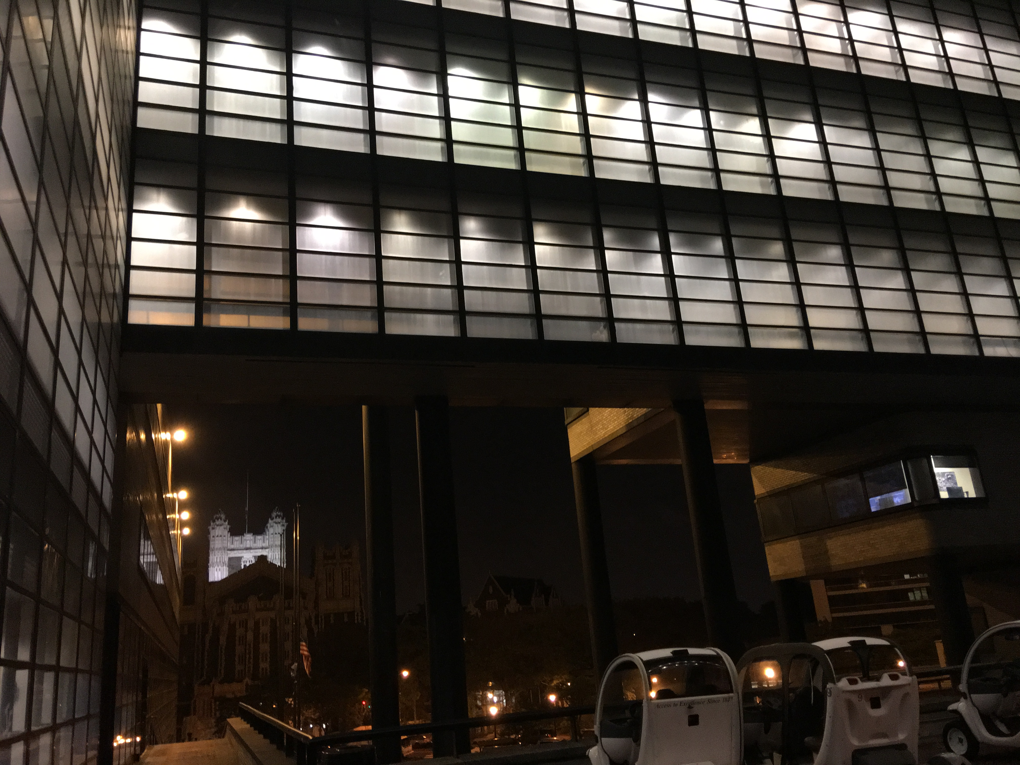 Nocturnal view of the Noth Academic Center with the Shepard Hall (and the CCNY Tower) in the background.